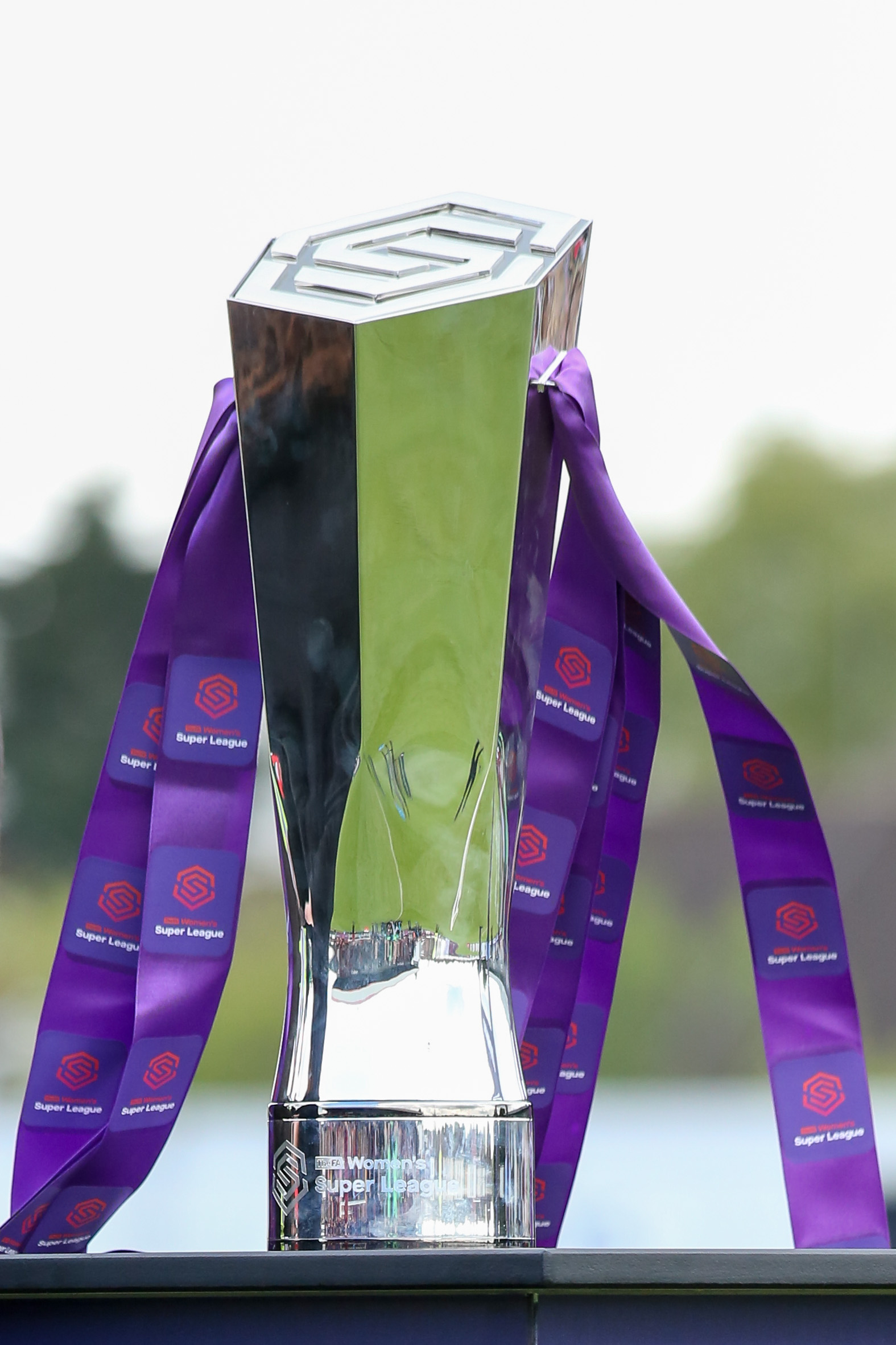 2018–19 FA WSL: Arsenal WFC v Manchester City WFC, 11 May 2019 – FA WSL winners trophy